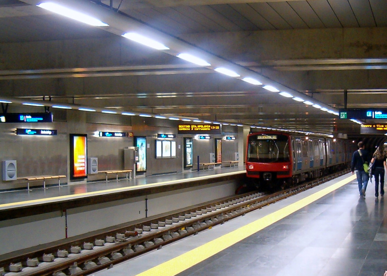 Metro station Terreiro do Paço (Lisboa)